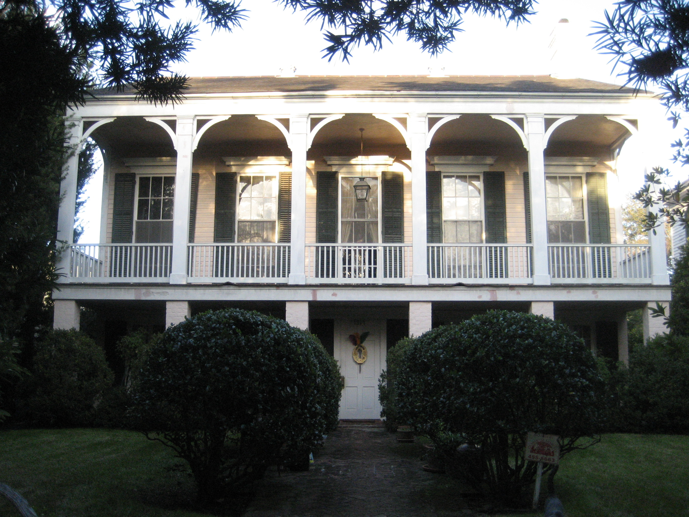 New Orleans: House in lower Garden District, formerly home of writer George Washington Cable. Originally the lower story was an open "basement" with the main entrance being by staircase to the story above.